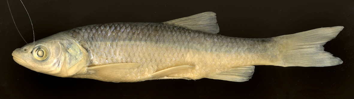 Squalius janae NMW 49229, 147.5 mm SL, Croatia: former Cepic Lake.